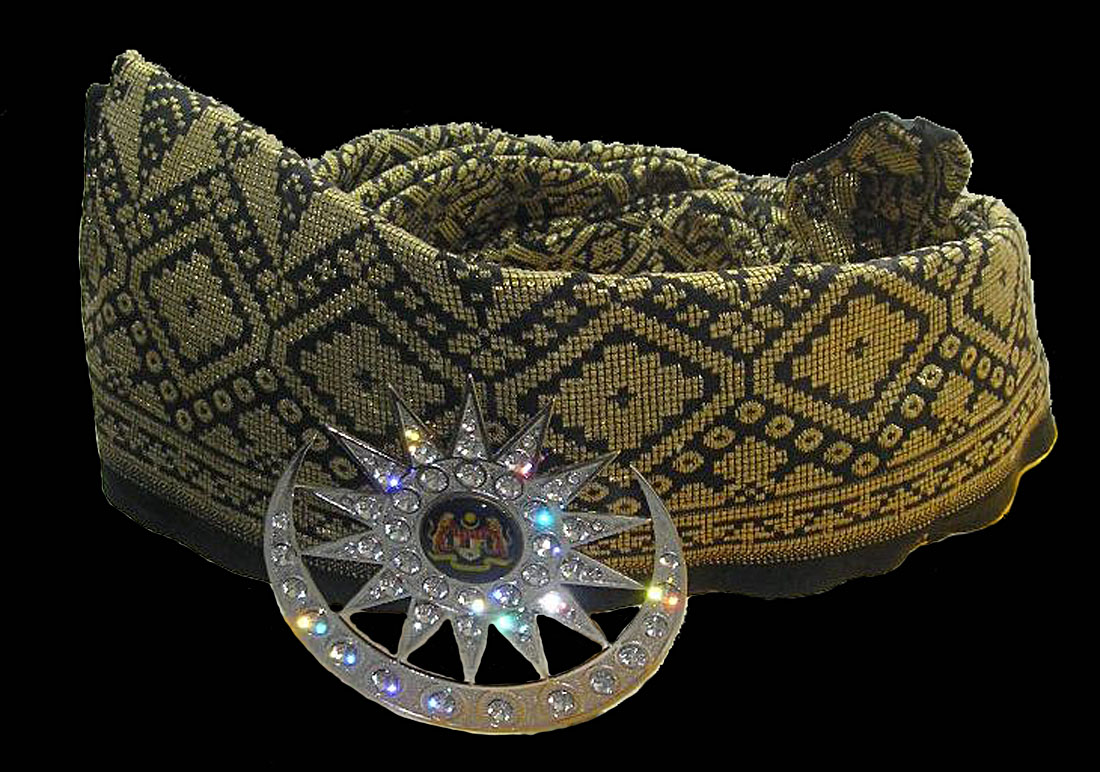 The Royal Headgear (Solek Dendam Tak Sudah). This black songket headgear embroidered with gold thread is worn by the Yang di-Pertuan Agong during his Royal Installation Ceremony and important state ceremonies. The headgear is folded in the style of Dendam Tak Sudah which originates from the state of Negeri Sembilan. Fixed on the right of this headdress is a platinum crescent with fourteen-pointed stars. In the centre of the star is the crest of the Malaysian government.